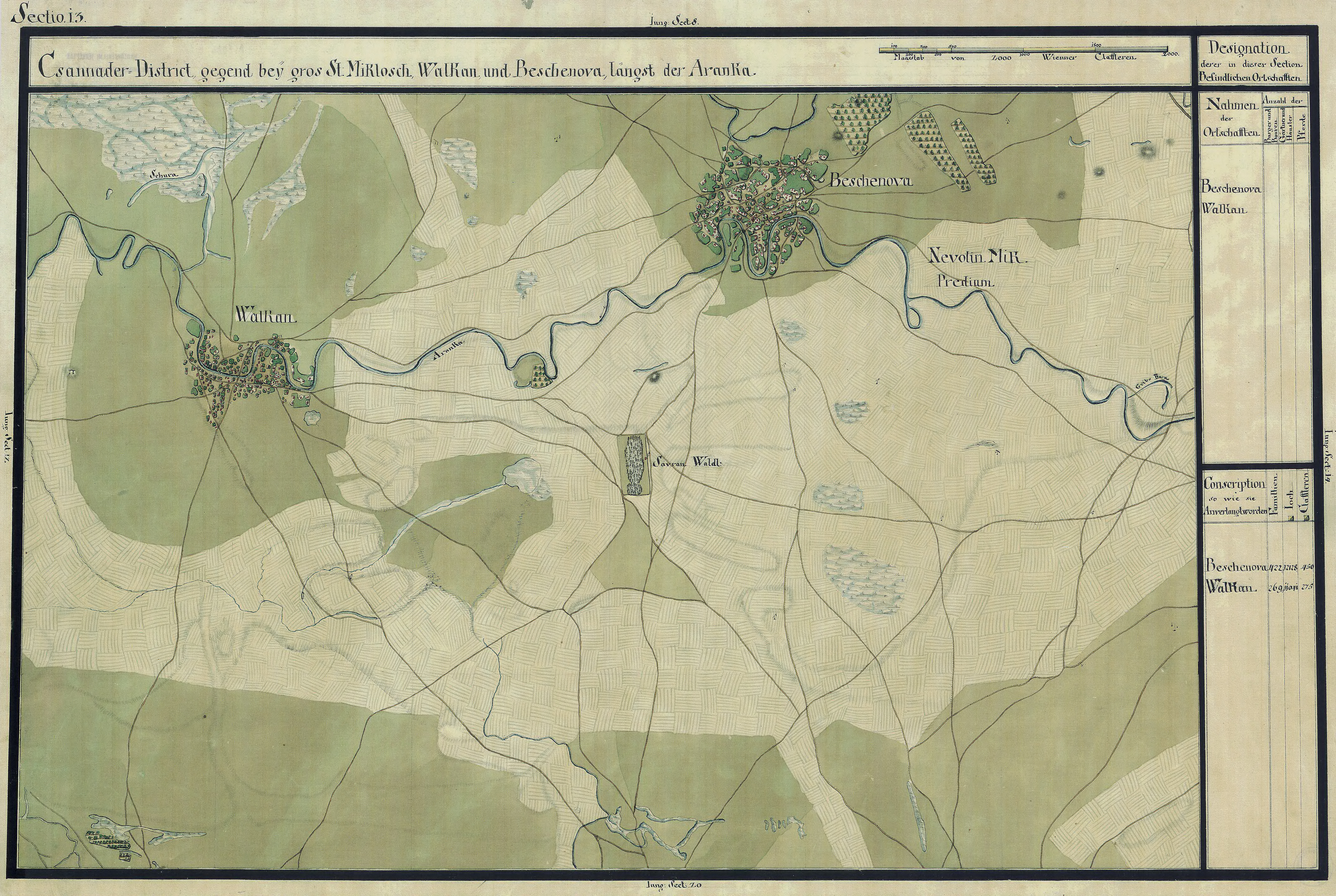 The Banat region in the cadastral maps: Josephinische Landesaufnahme, 1769-72. Josephinische Landaufnahme pg013